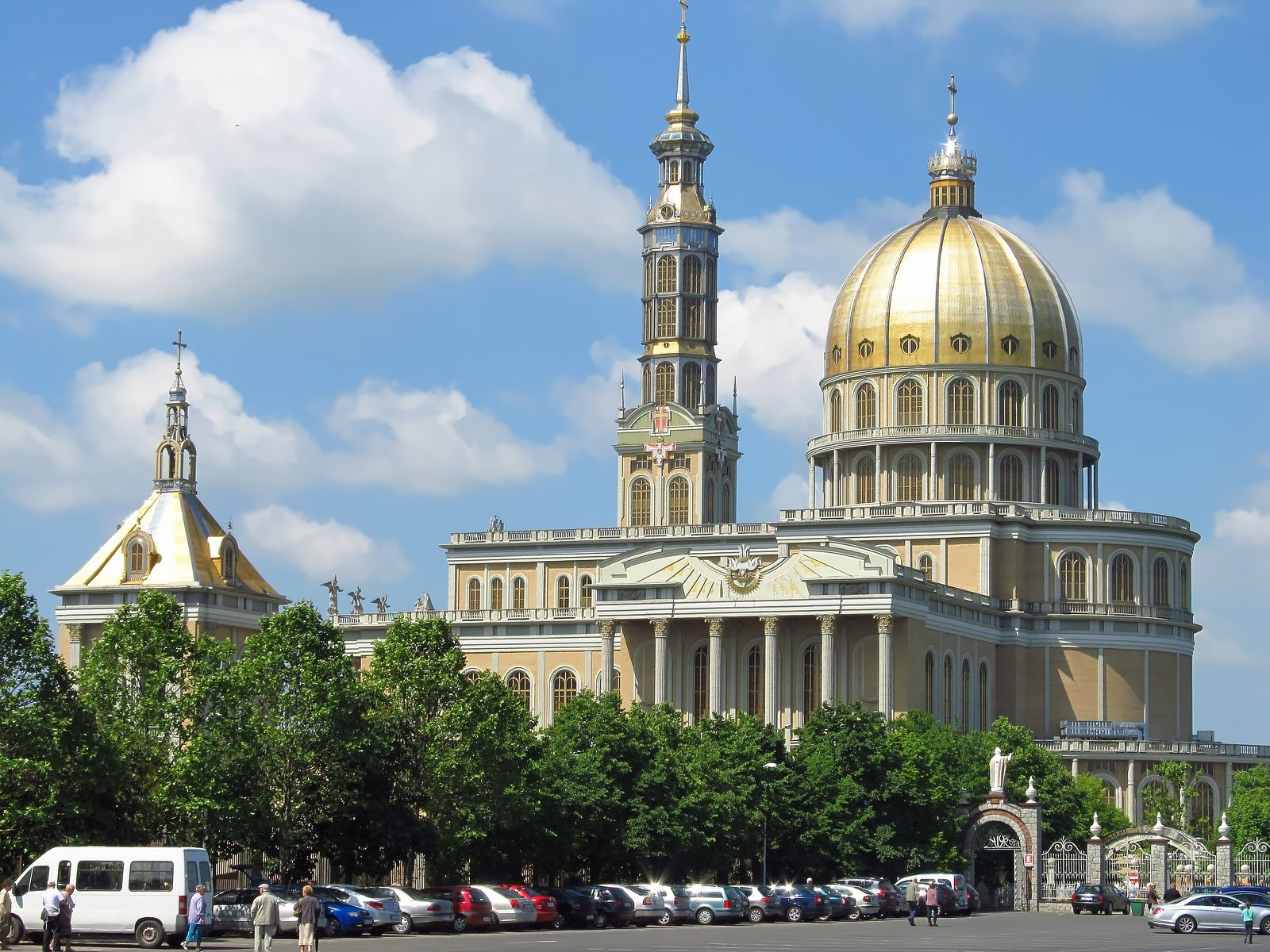 Lichen Basilica seen from the parking lot